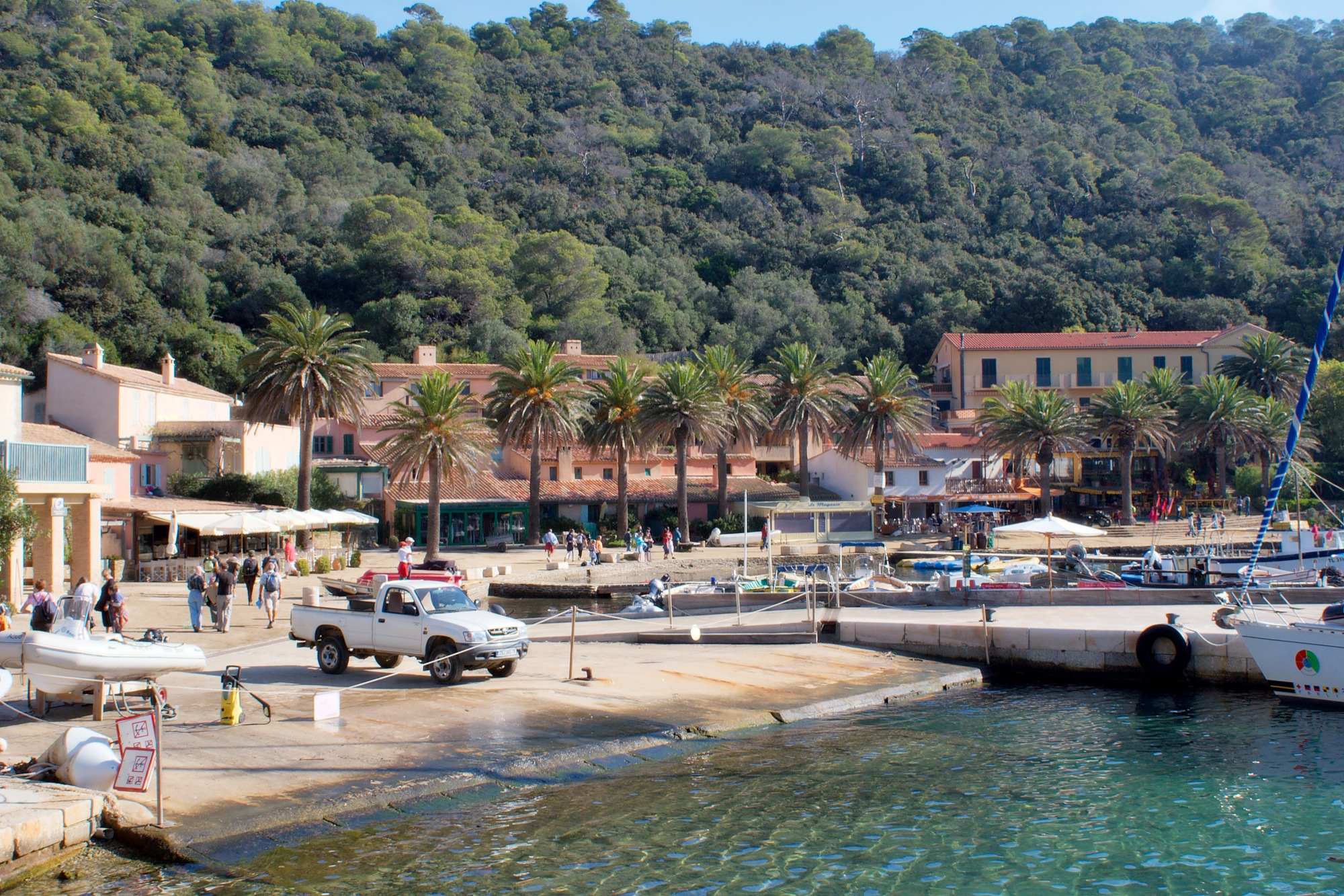 Harbour of Port-Cros